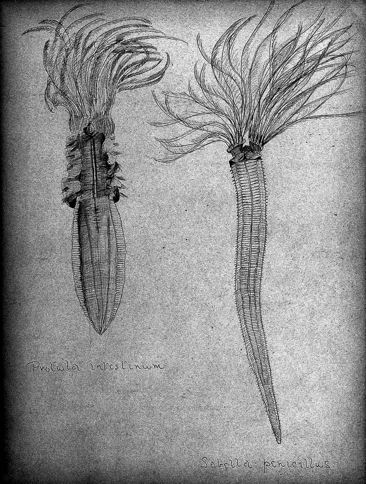 Two pencil drawings of Protula Intestinum and Sabella Penicillus (=Sabella spallanzanii) Archives & Manuscripts Keywords: Protozoology; Charles Morley Wenyon